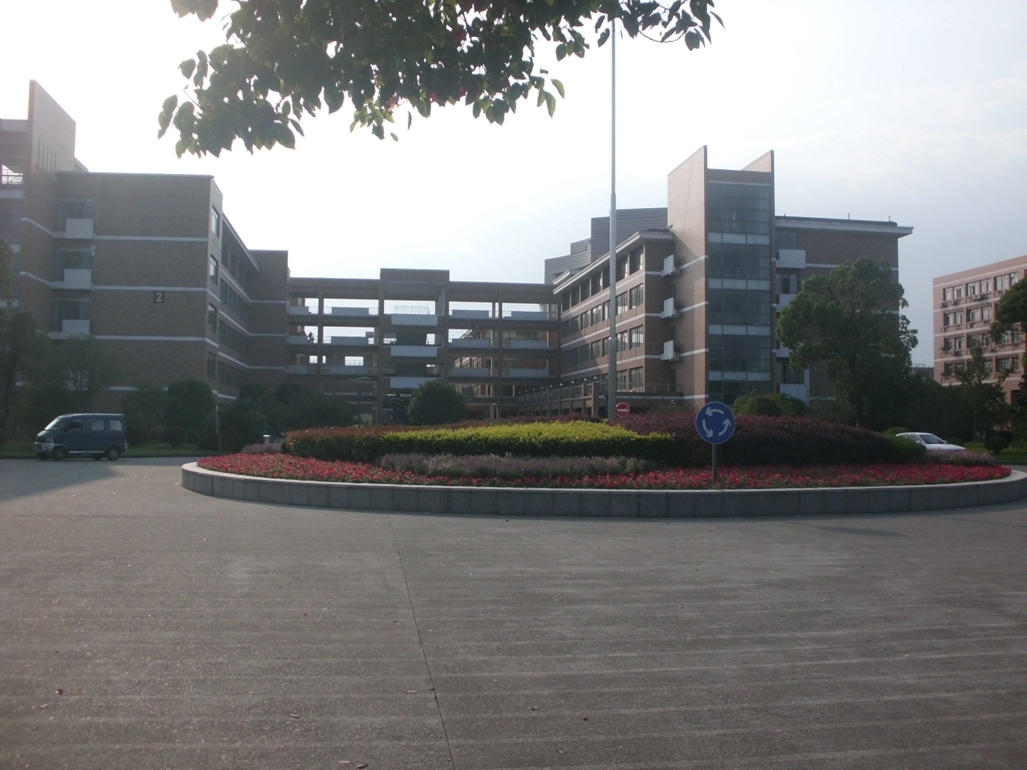 Zhejiang Sci-Tech University campus